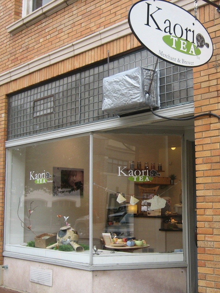 Store front of Kaori TEA, a retailer of high quality loose leaf teas, unique tea cups, teapots, and other related merchandises, in Covington, Kentucky.